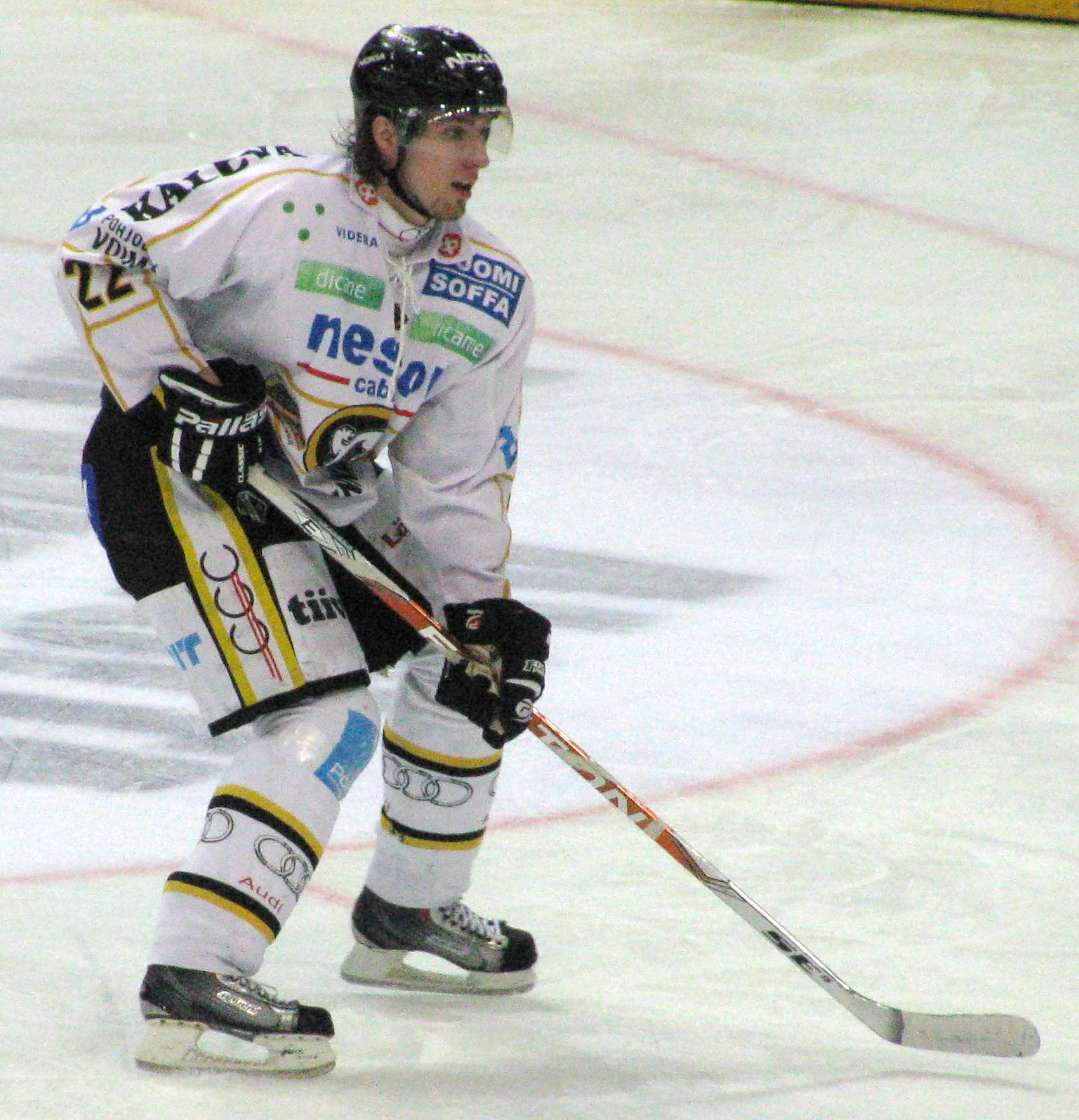 Lukáš Kašpar (Kärpät) in a match against Jokerit.